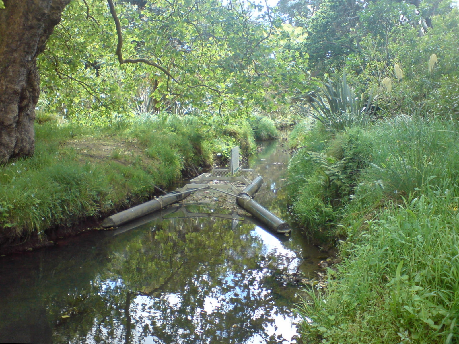 A garbage collection boom device in Oakley Creek, somewhere along the northernmost stretch between Phyllis Reserve and the inlet, near Waterview in Auckland, New Zealand.